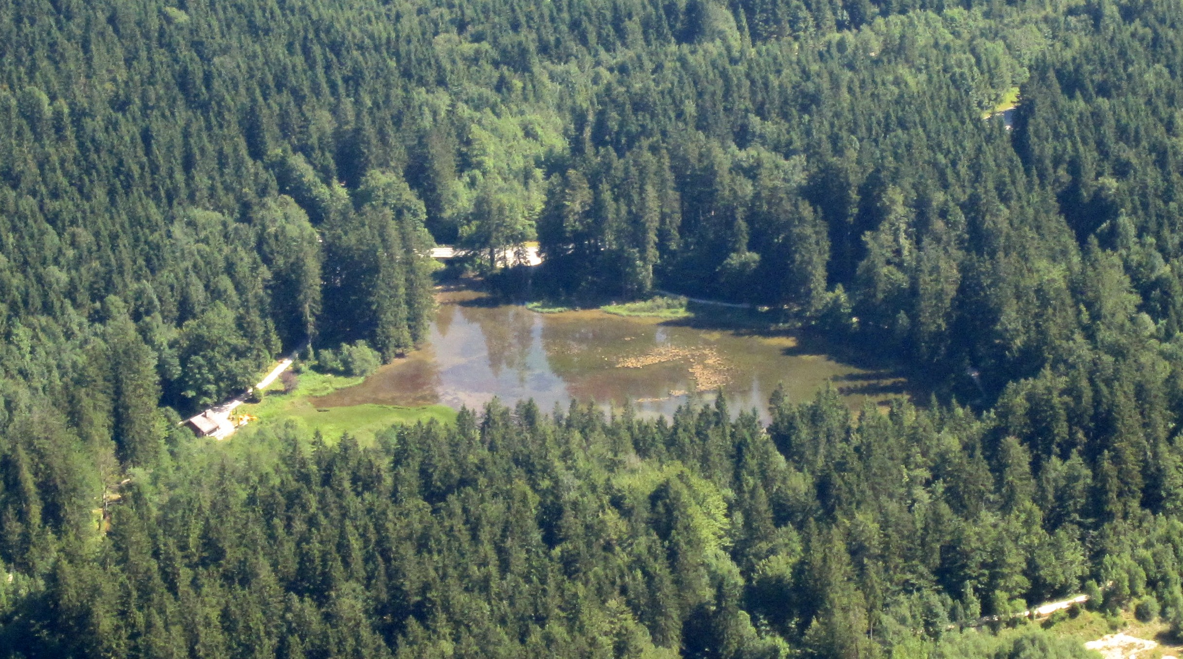 Taferklaussee as seen from Aurachkar, Austria